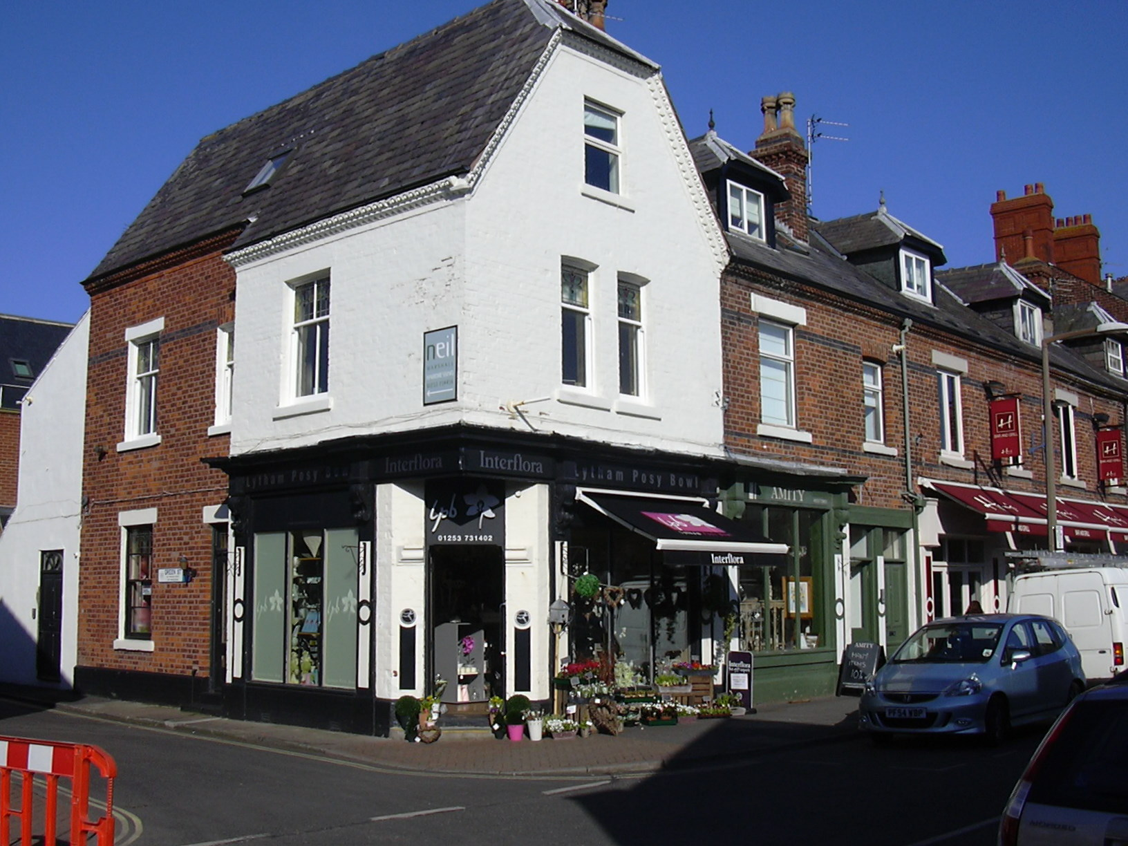 "Posy Bowl" 3 Clifton Square, Lytham St. Annes, FY8 5JP